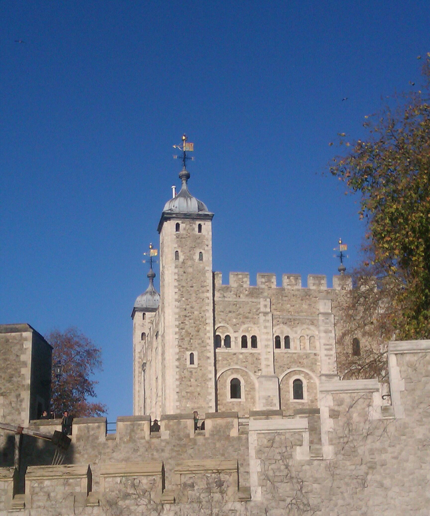 The Tower Of London.